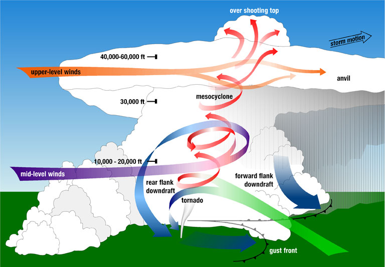 A schematic of the basic morphology of a tornadic supercell